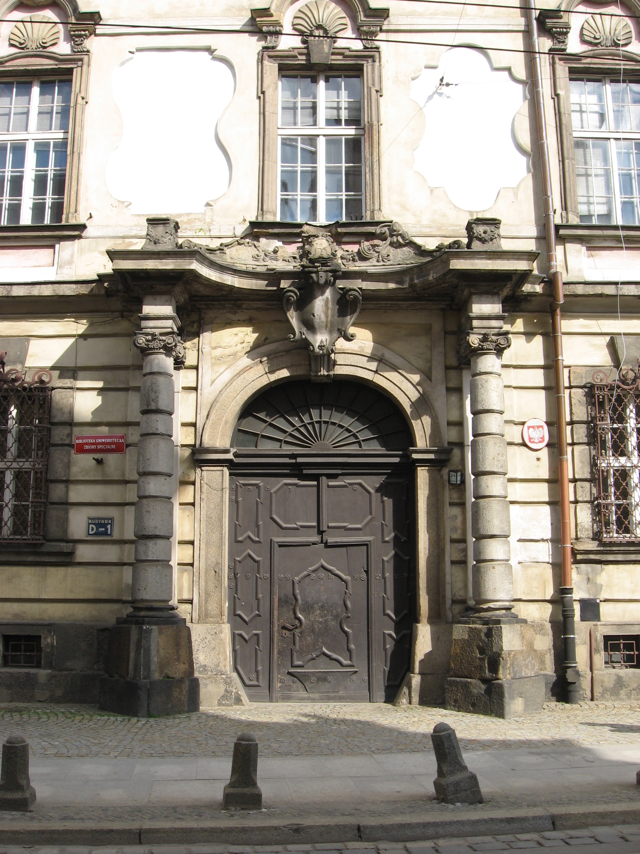 Entrance to the building of Wrocław University Library at Saint Jadwiga's Street (special collctions).